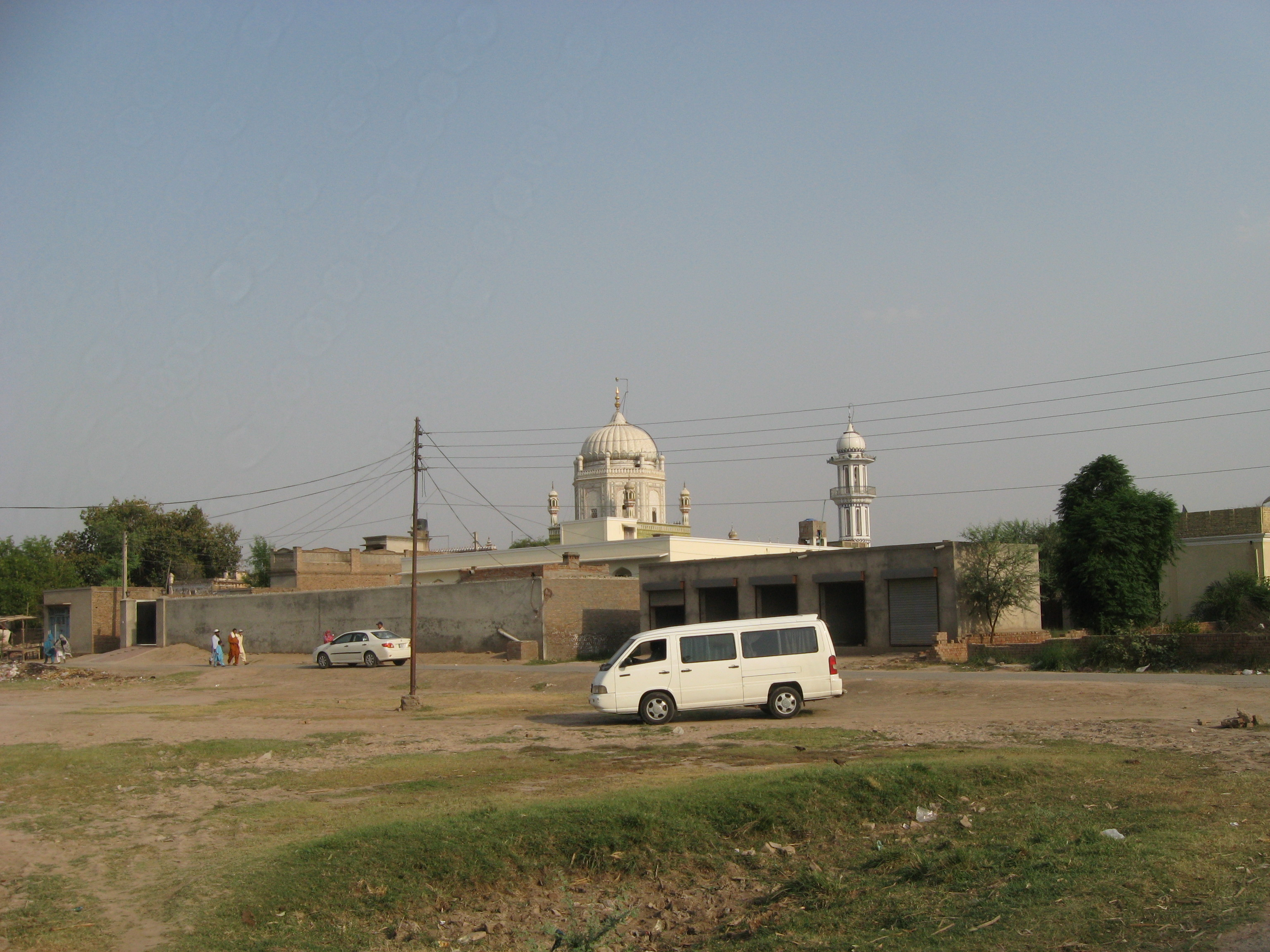 Sial Sharif Darbar view.